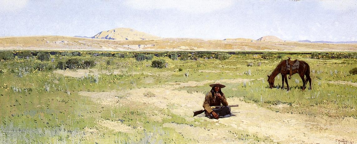 A Rest In The Desert